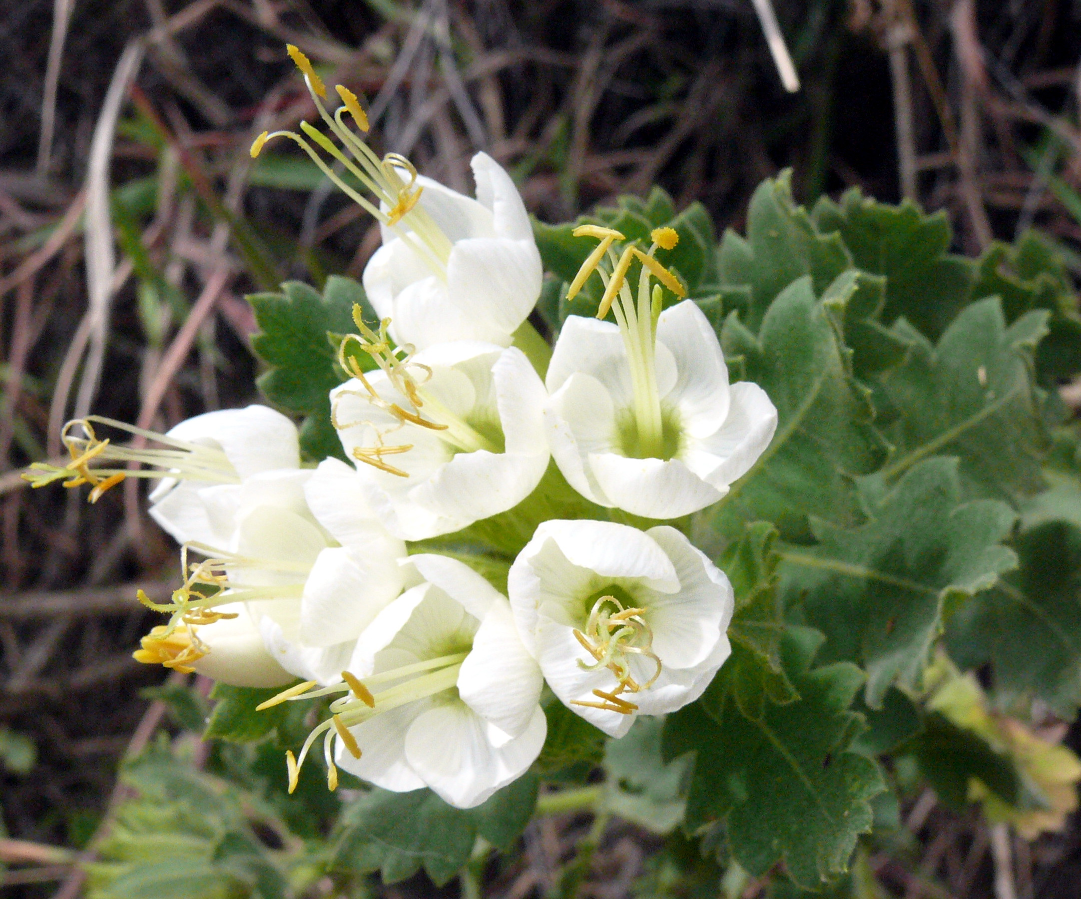 Cantua quercifolia fotographed in Ecuador